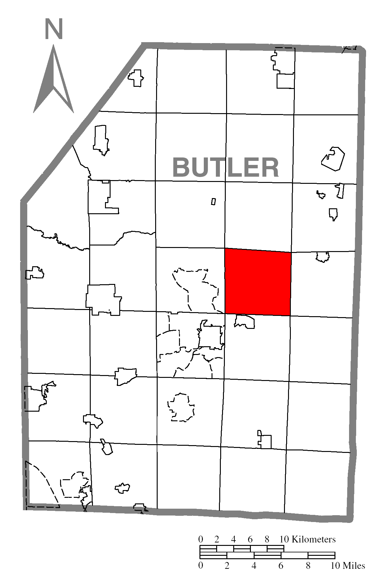 A map of Butler County showing Oakland Township, Pennsylvania (alternate) highlighted on the map.